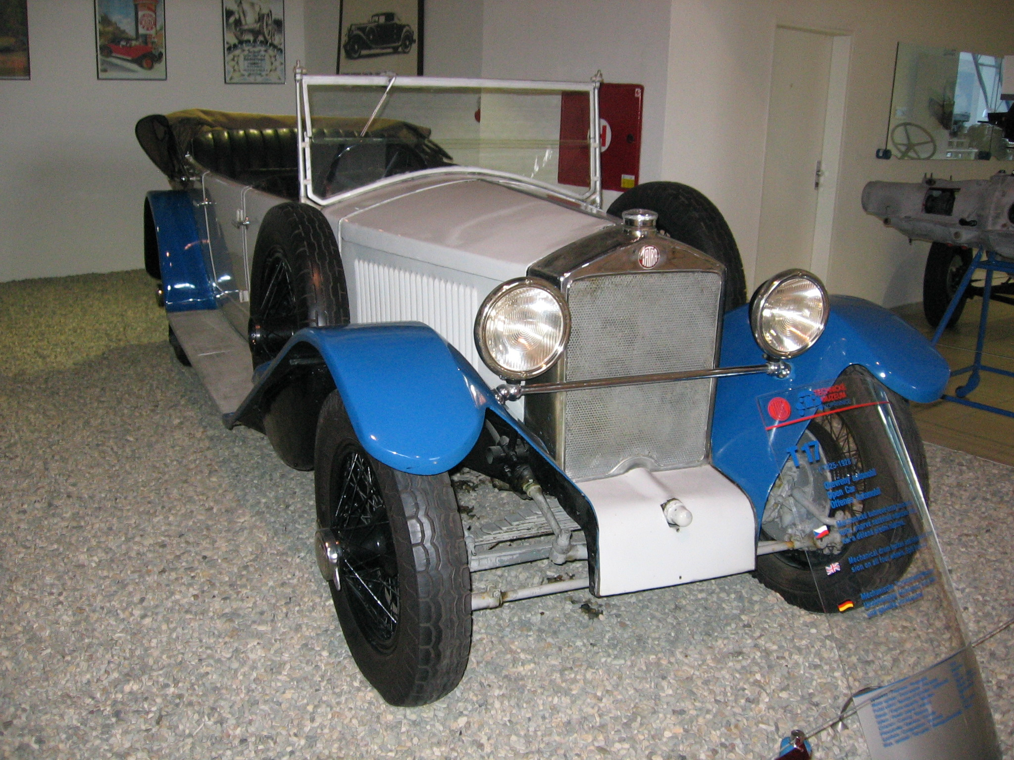 Tatra 17 at Tatra museum